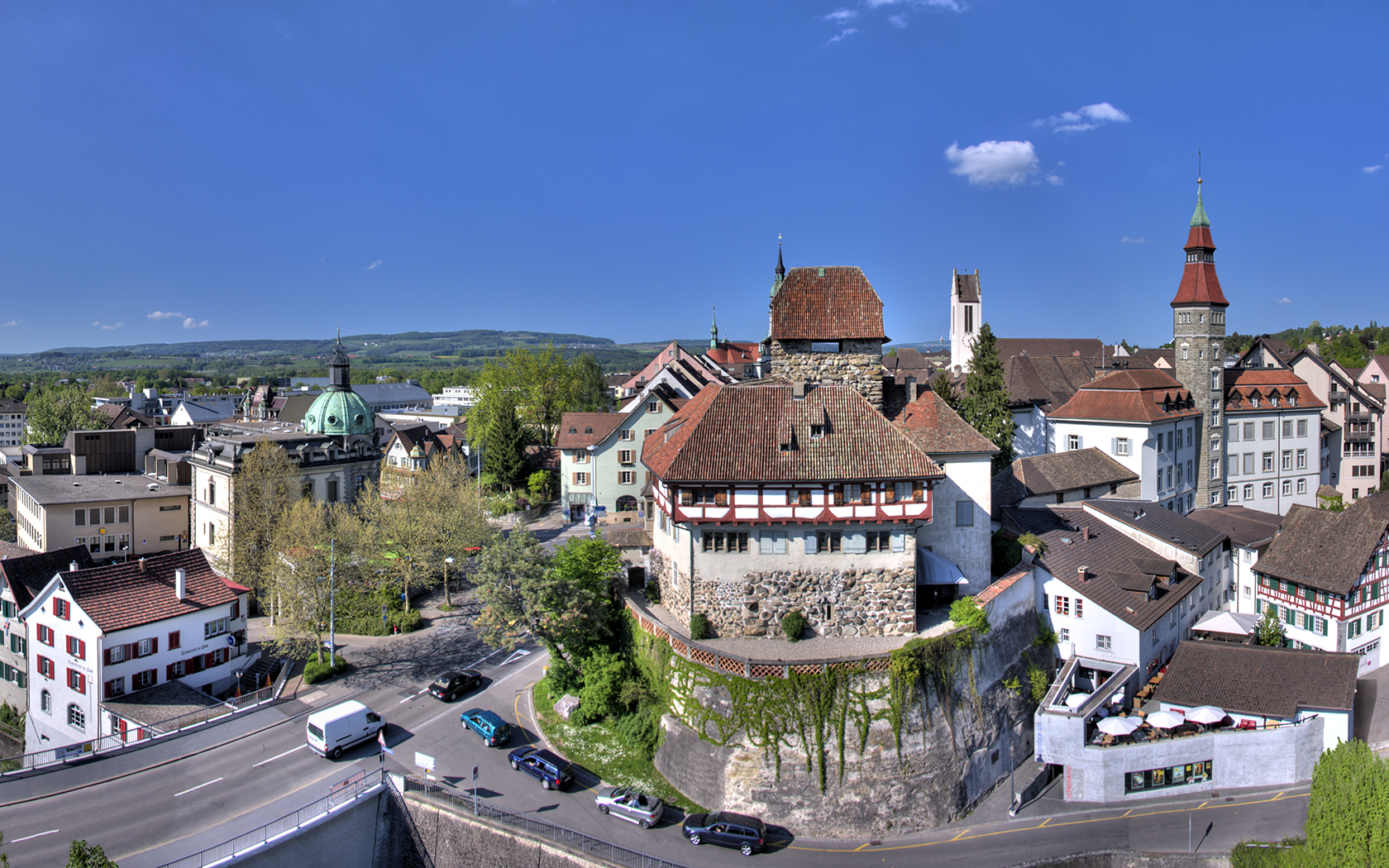 Castle and town hall (to the right) of Frauenfeld. To the left: dome of the Post Office building.